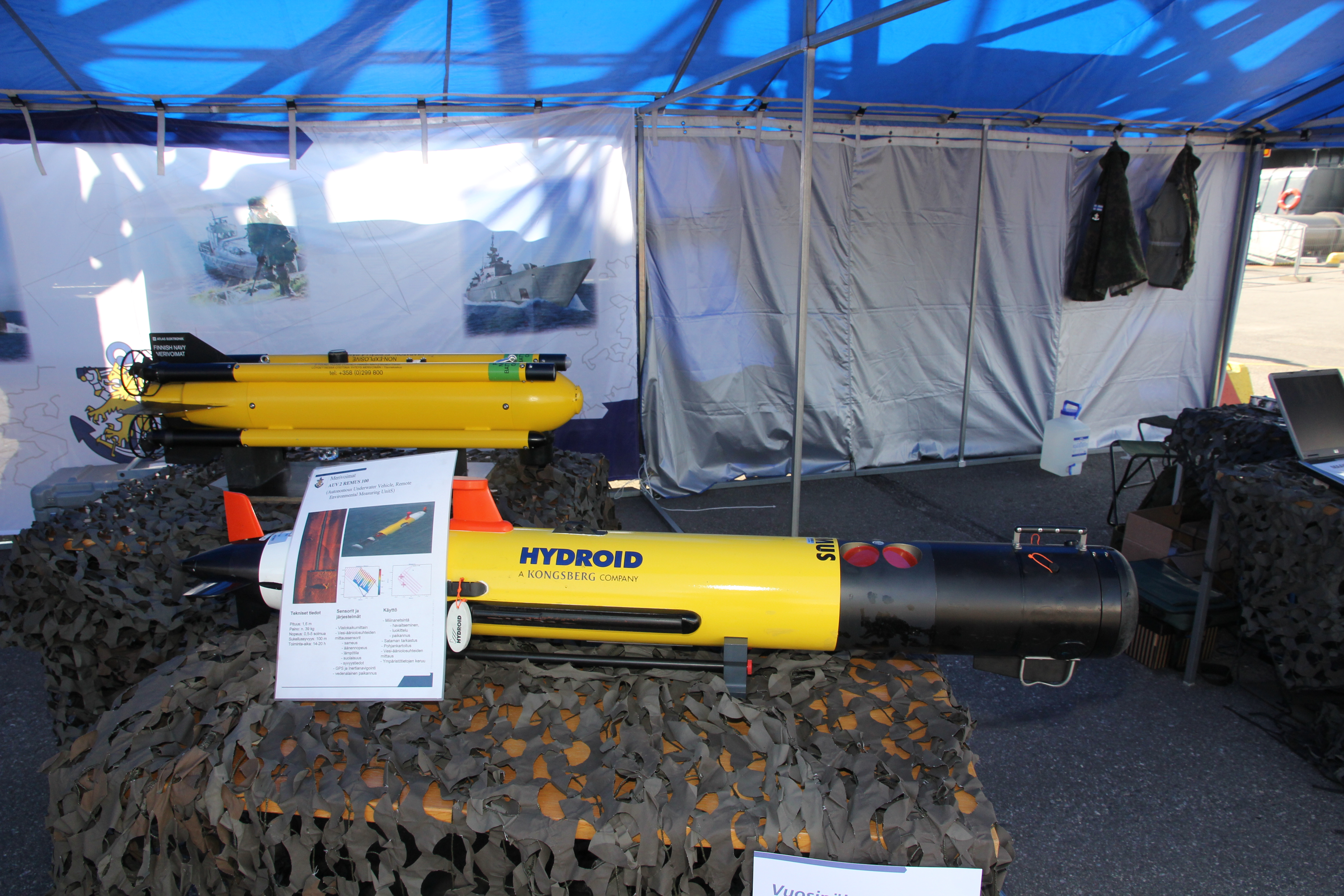 Hydroid REMUS 100 and Atlas Elektronik Seafox-I unmanned underwater vehicles on display in Turku during Finnish Navy 2014 anniversary.